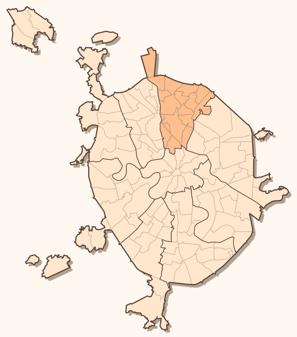 Moscow districts map